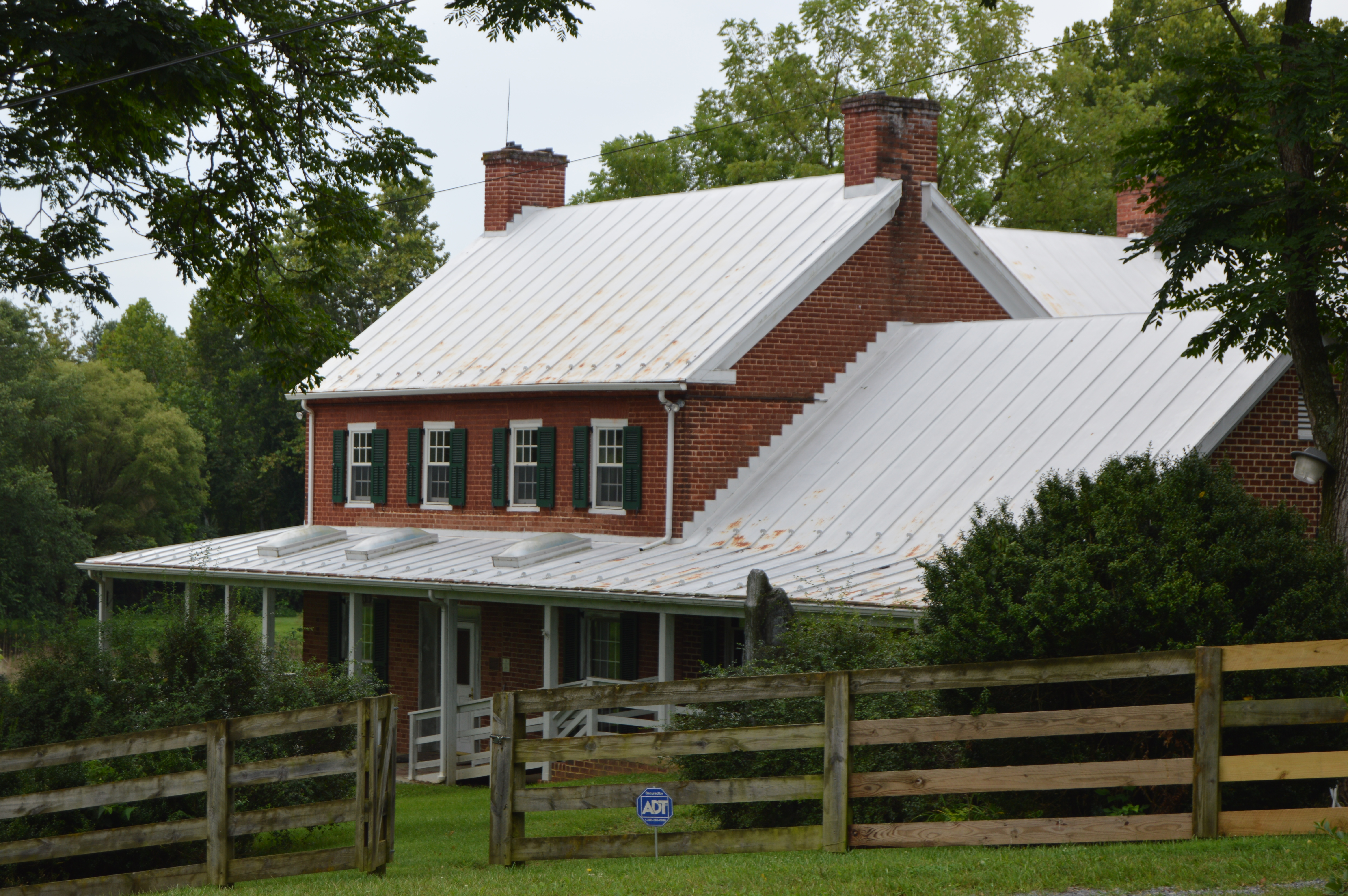 Front and northern end of the Isaac Spitler House, located at the end of Oak Forest Lane southwest of Luray in Page County, Virginia, United States. Built in 1826, it is listed on the National Register of Historic Places.